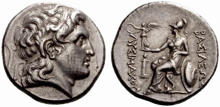 Lisimachus silver tetradrachm